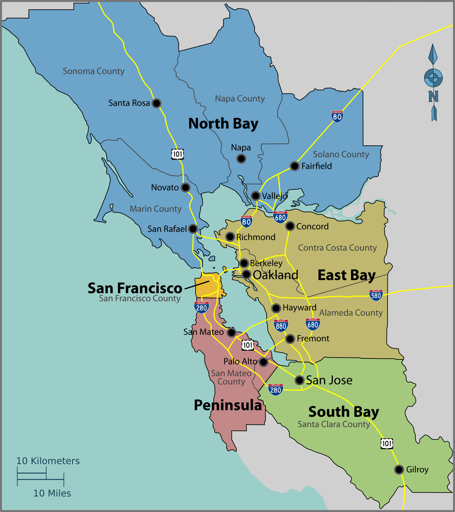 Map of the San Francisco Bay Area — the region in Northern California. Map of: San Francisco Bay Area (California).